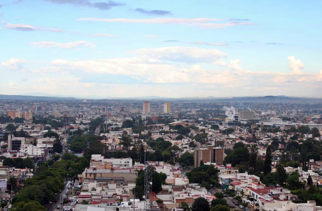 View of Guadalajara, Mexico.